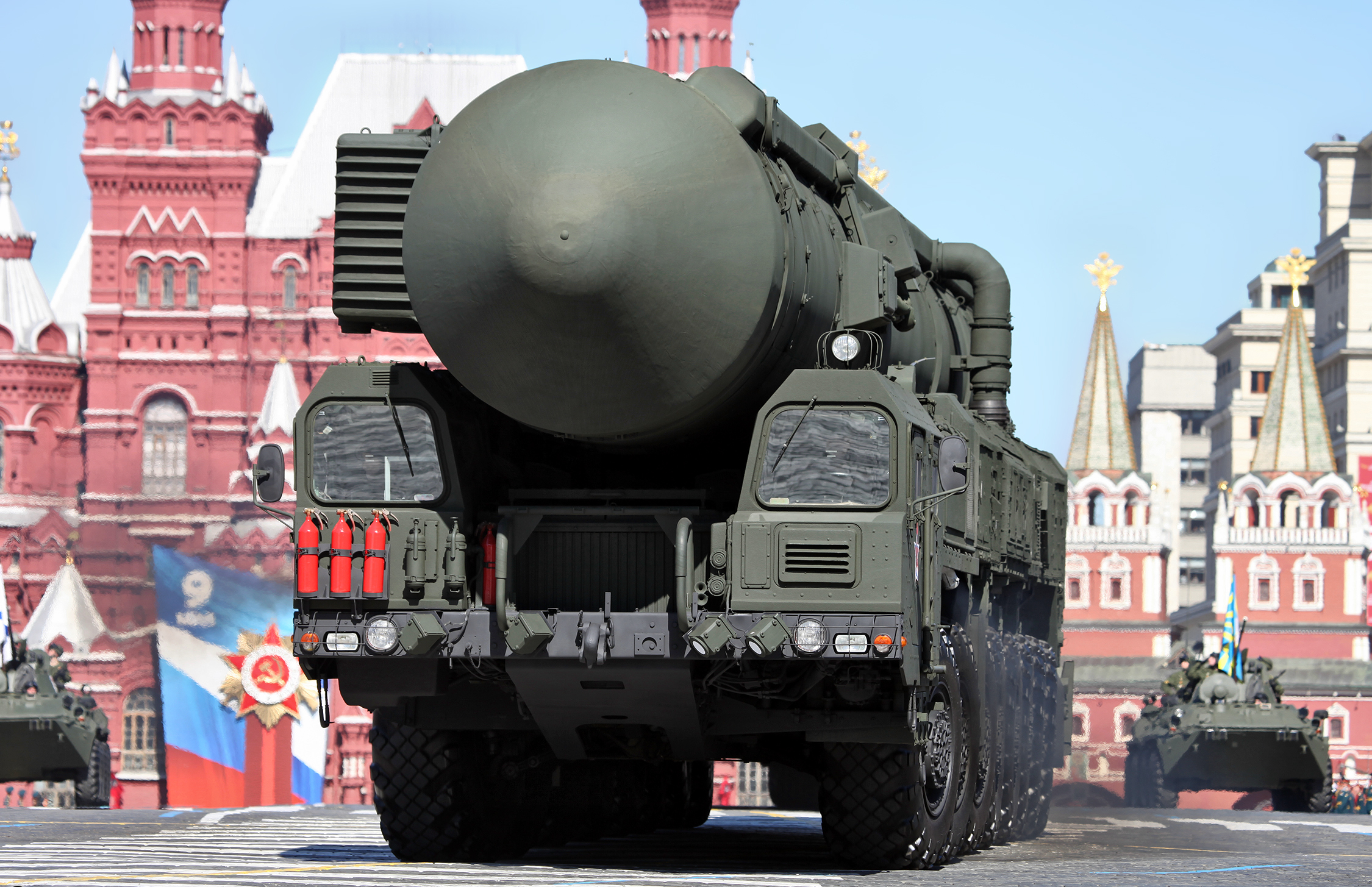 Topol-M missile system TEL